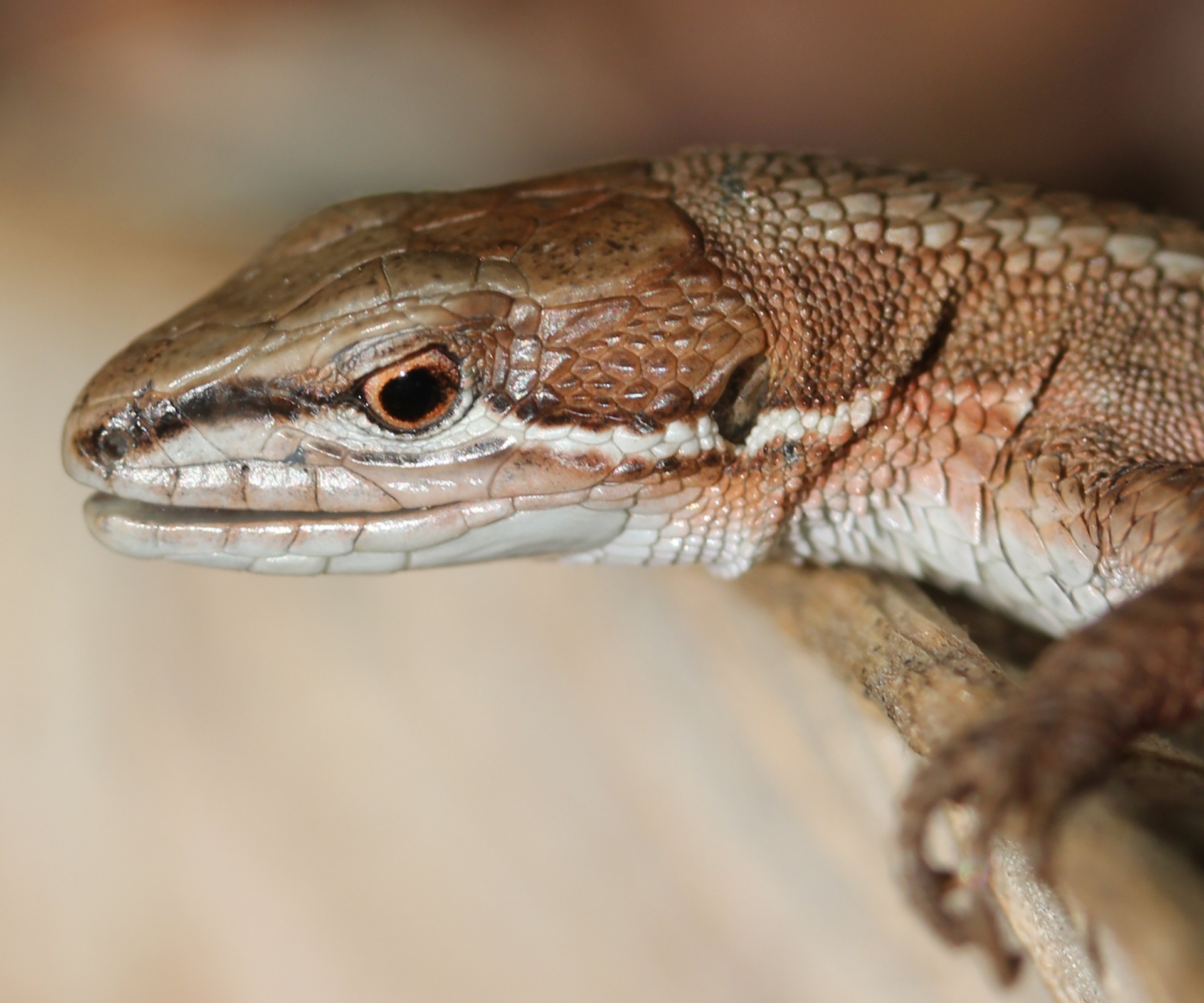 Takydromus tachydromoides, head, in Mount Yanadani, Gero, Gifu prefecture, Japan.